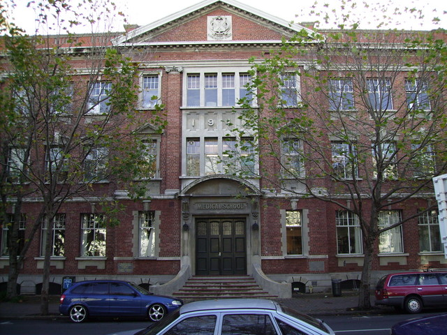 Scott Building - University of Otago Medical School, New Zealand. New Zealand Historic Places Trust Register number: 4790